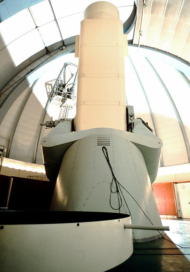 Alfred Jensch Telescope in the "Karl Schwarzschild Observatory", renamed in Thuringian State Observatory, (astronomical observatory in Tautenburg near Jena, Thuringia). Largest telescope located in Germany, which is also the largest Schmidt camera in the world.